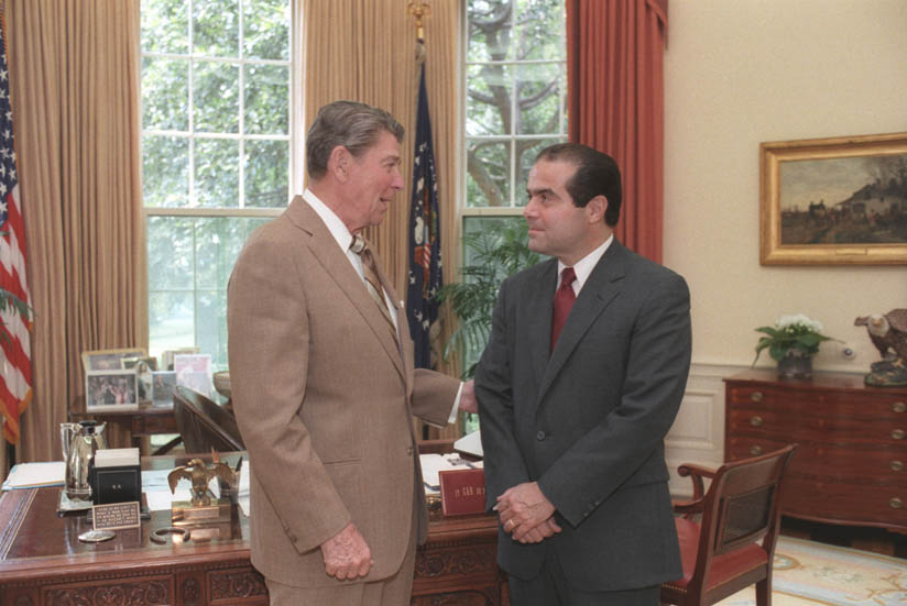 President Ronald Reagan and Judge Antonin Scalia confer in the Oval Office, July 7, 1986